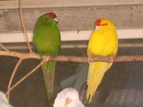 my own birds --gunblade Cyanoramphus, probably novaezelandiae, domesticated breeds.